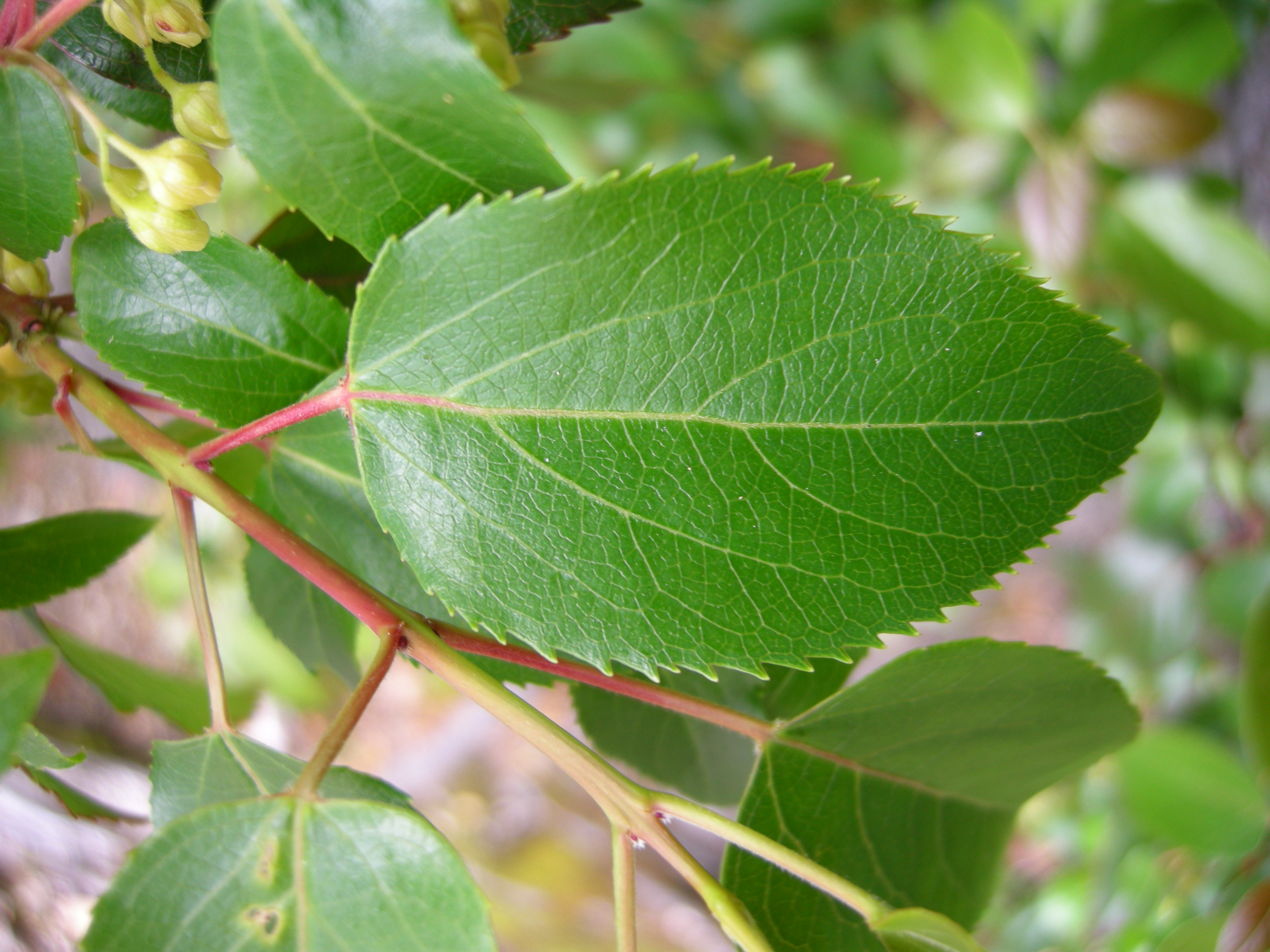 Leave of Aristotelia chilensis. Picture taken in Los Alerces National Park (Chubut province, Argentina).